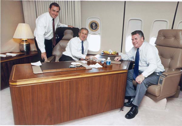 Congressmen Vito Fossella and Peter King with President George W. Bush in the President's Office on Board Air Force One